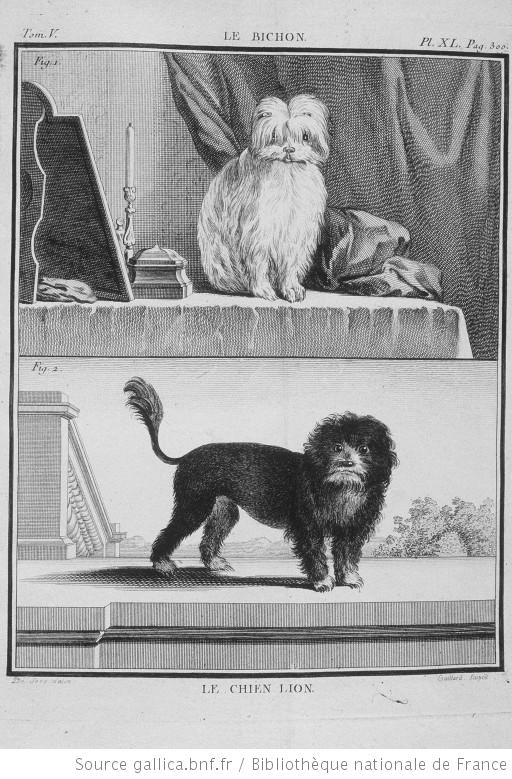 A bichon and a löwchen (dog breeds).